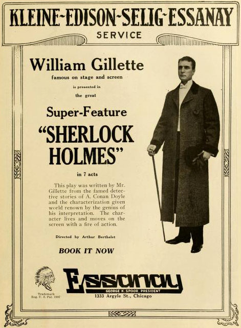 Advertisement in Moving Picture World for the American silent film Sherlock Holmes (1916).